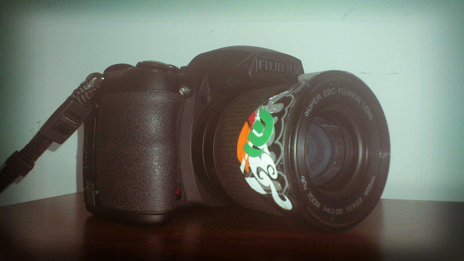 Fujifilm FinePix HS20EXR with a painted hood.